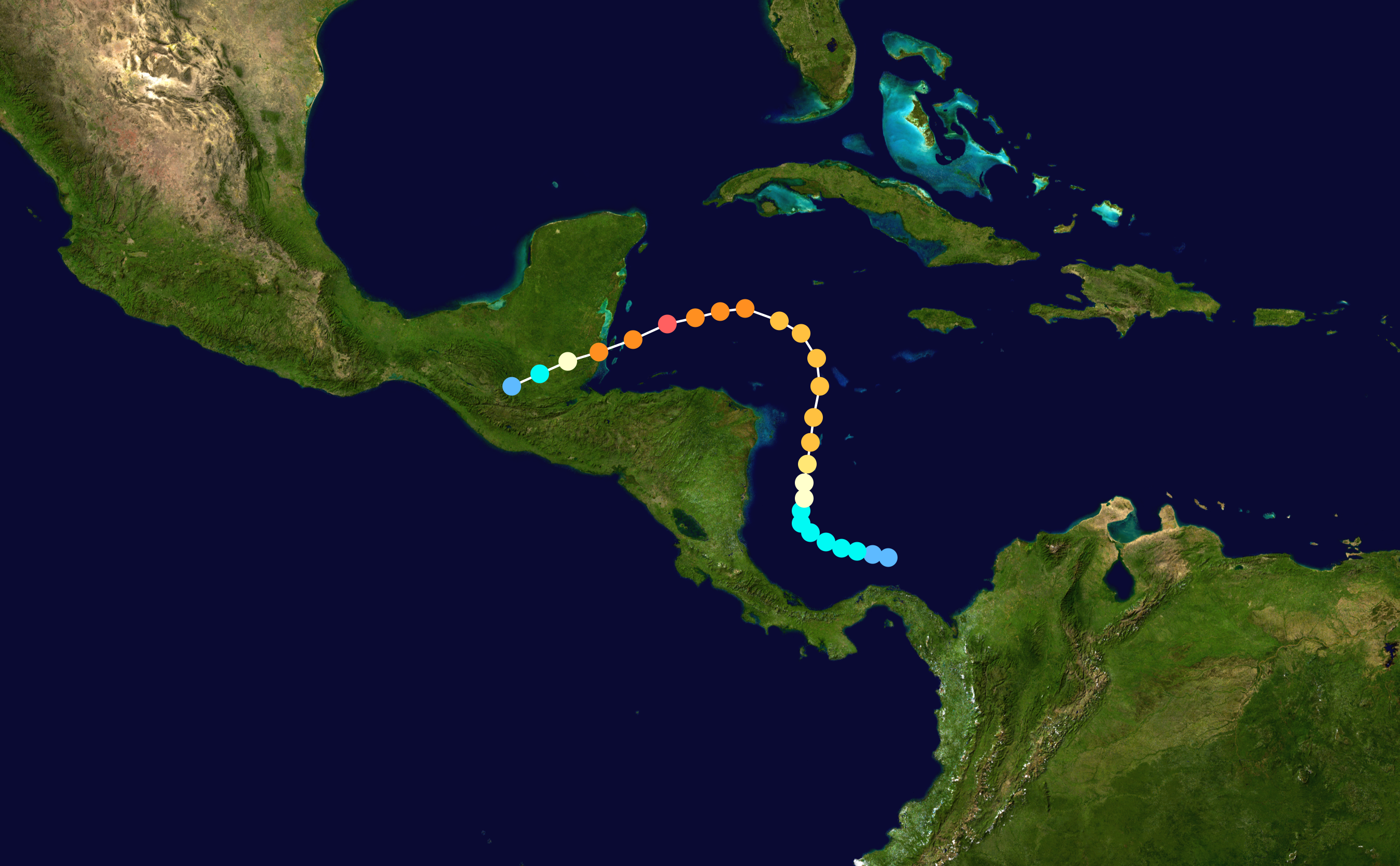 Track map of Hurricane Hattie of the 1961 Atlantic hurricane season. The points show the location of the storm at 6-hour intervals. The colour represents the storm's maximum sustained wind speeds as classified in the Saffir–Simpson scale (see below), and the shape of the data points represent the nature of the storm, according to the legend below. Saffir–Simpson scale Tropical depression≤38 mph≤62 km/h Category 3111–129 mph178–208 km/h Tropical storm39–73 mph63–118 km/h Category 4130–156 mph209–251 km/h Category 174–95 mph119–153 km/h Category 5≥157 mph≥252 km/h Category 296–110 mph154–177 km/h Unknown Storm type Tropical cyclone Subtropical cyclone Extratropical cyclone / Remnant low / Tropical disturbance / Monsoon depression